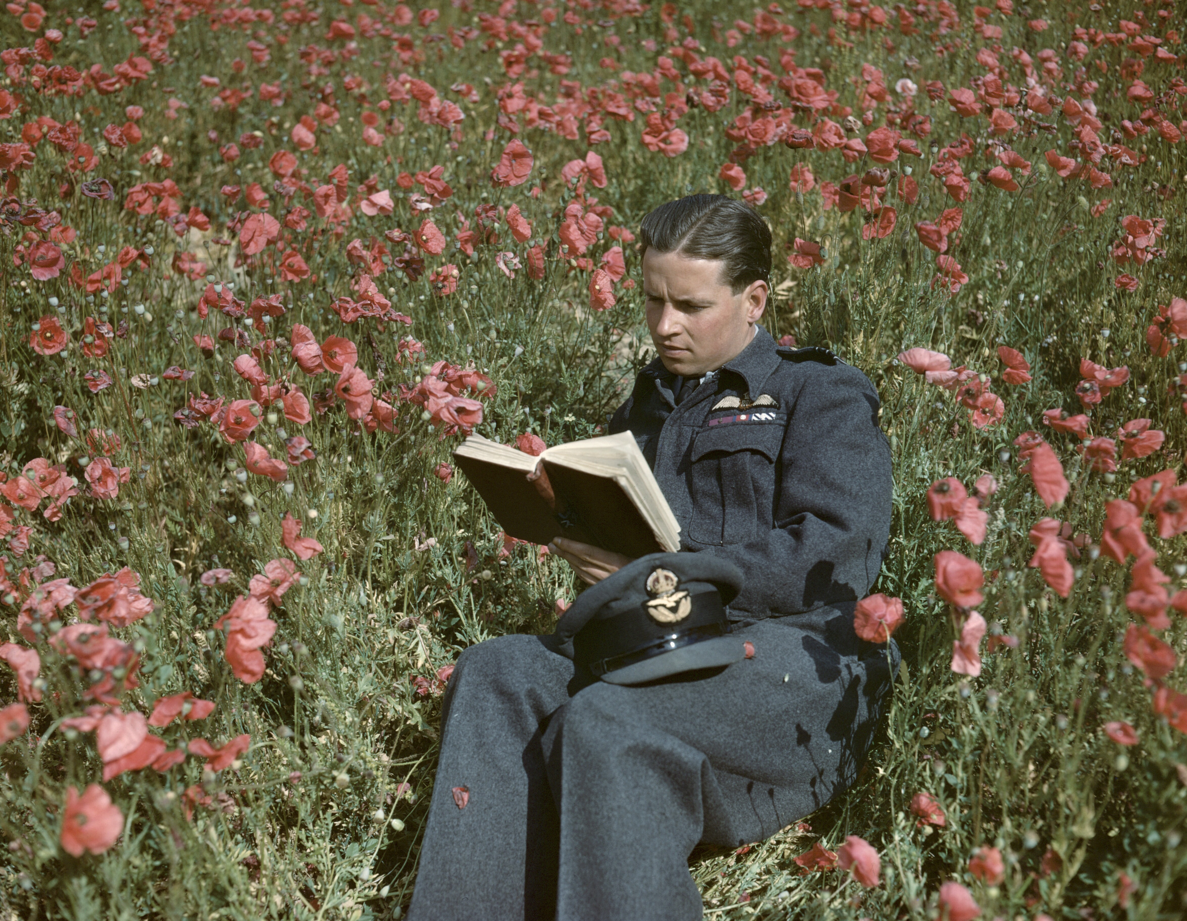 Wing Commander Guy Gibson VC, Commanding Officer of No. 617 Squadron (The Dambusters) at Scampton, 22 July 1943. Wing Commander Guy Gibson sitting in a poppy field reading a book.